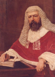 The Hon. George Rogers Harding’s painting in The Banco Court, Level 2 Supreme Court Building, George St, Brisbane. Judge George Rogers Harding (3 December 1838 – 31 August 1895) was a Queensland Judge and the second owner of St. John's Wood House.